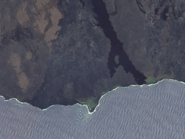 Satellite picture of Apua Point, Hawaii, United States